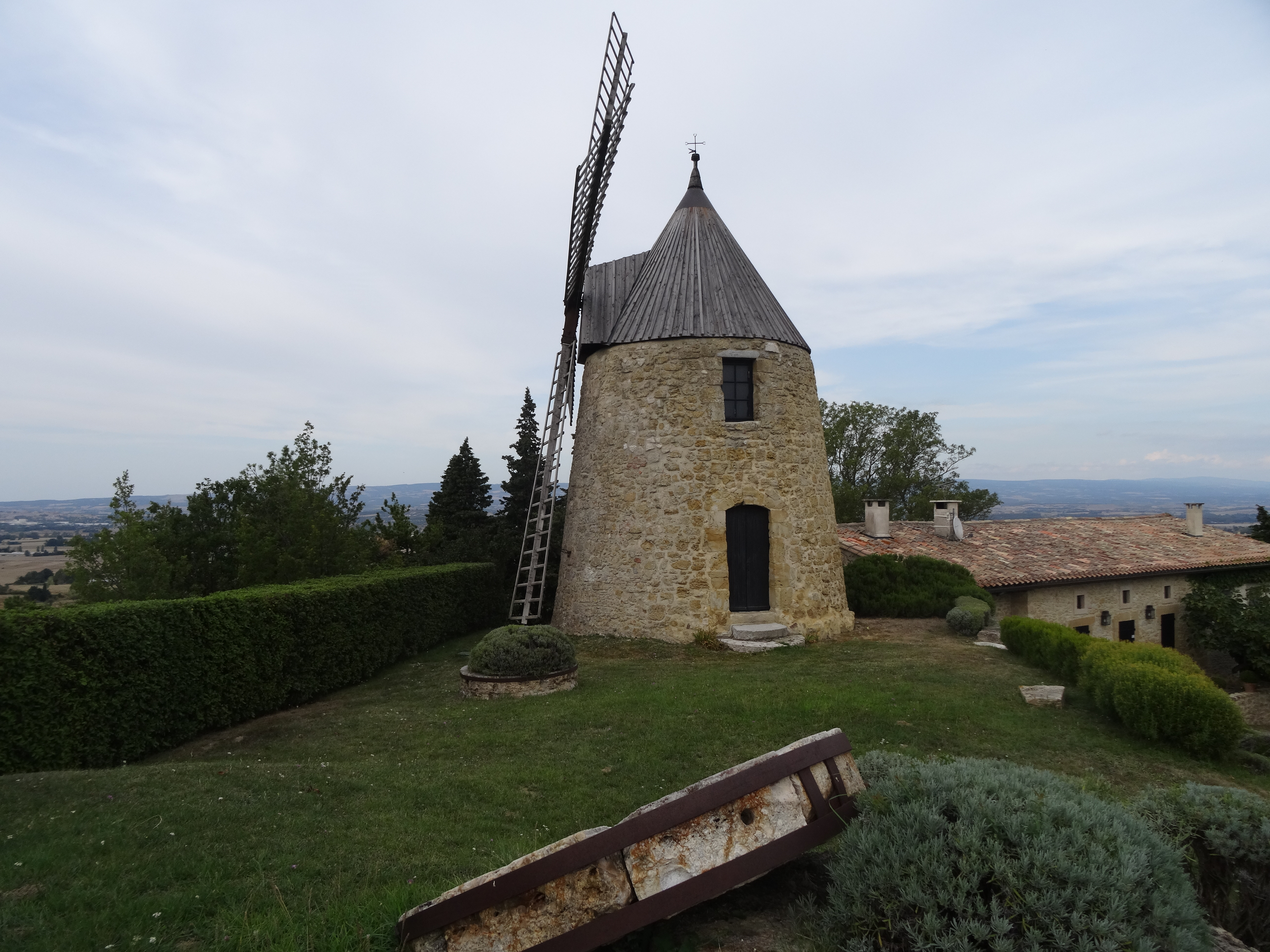 Mireval Lauragais